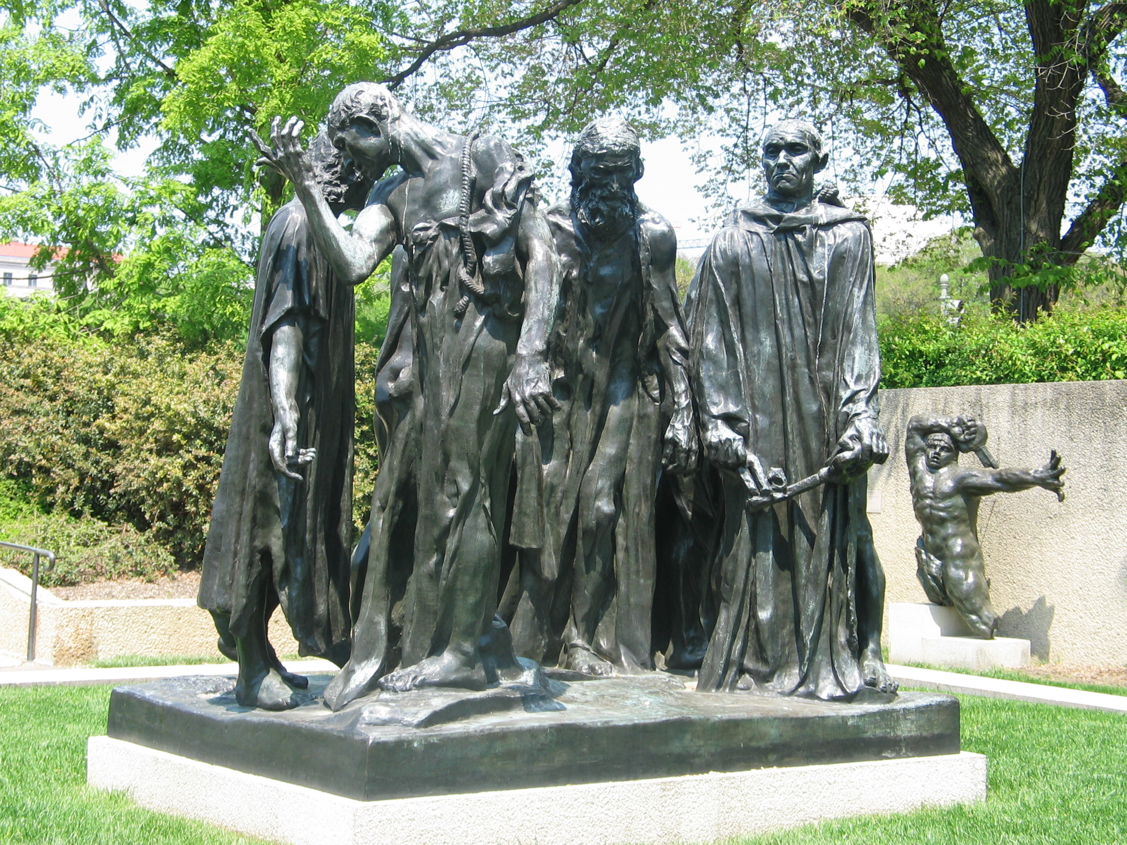 The Burghers of Calais. Sculpture by Auguste Rodin, located at the Hirshhorn Museum sculpture garden. Taken by User:Isomorphic during the Washington D.C. outing on May 7, 2005. Licensed under the GFDL, Creative Commons, whatever. I really don't care what you do with my work as long as it stays under a free license.